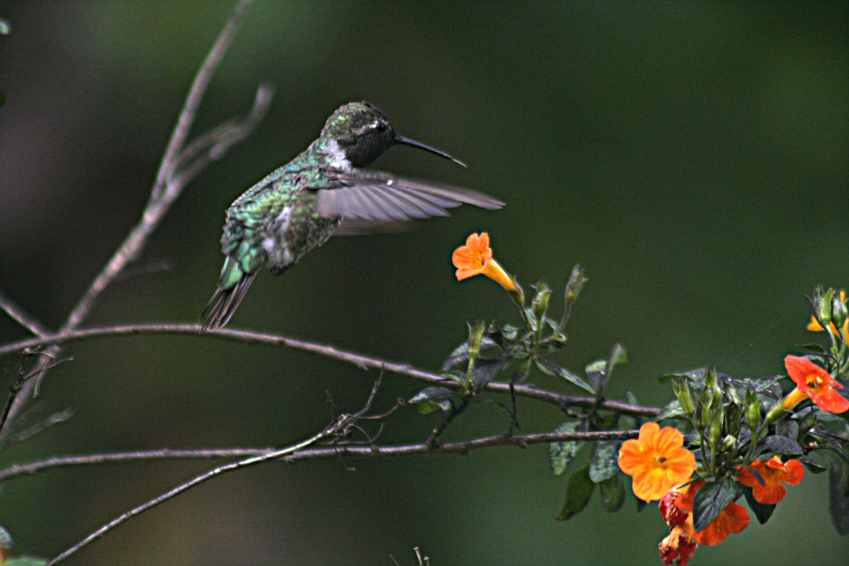 An Anna's Hummingbird and his flowers. The image was taken in San Francisco